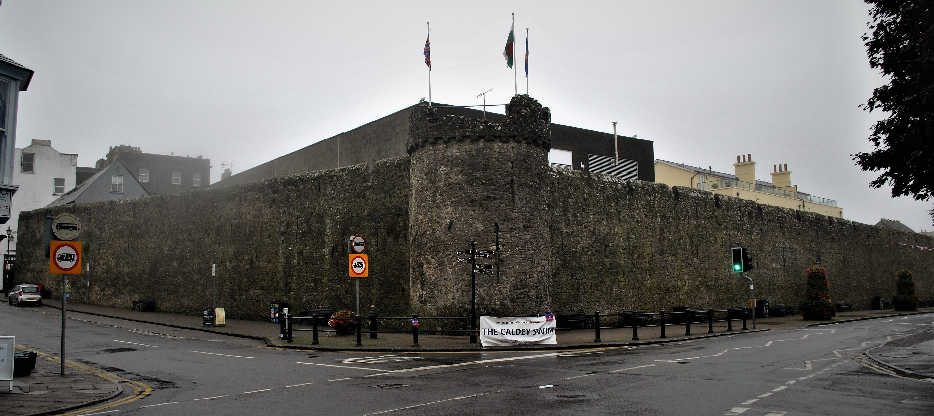 Cropped image of the Tenby town walls taken in August 2017